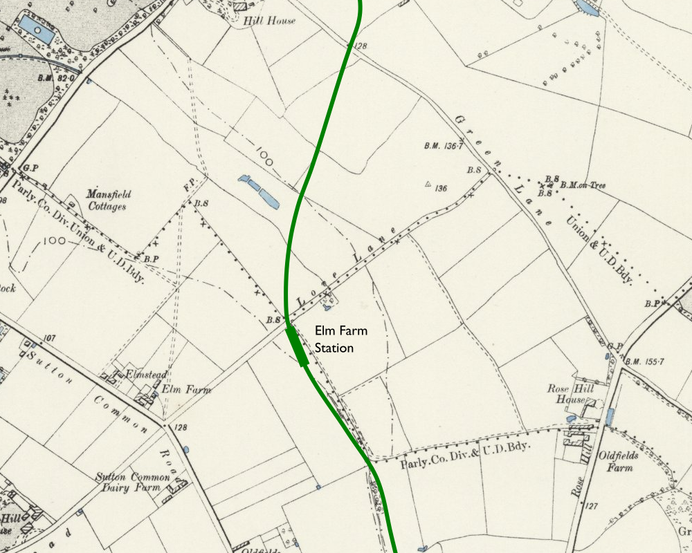 Proposed location of Wimbledon and Sutton Railway's unbuilt Elm Farm station and route of line superimposed on an Ordnance Survey Map.